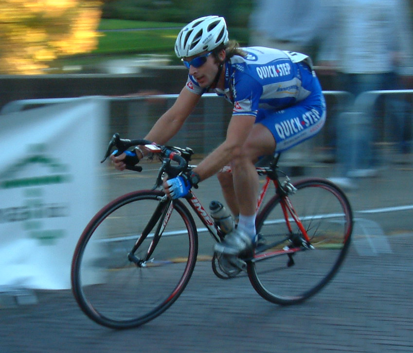 Servais Knaven, cycling for Quick·Step-Innergetic at the time, present at the goodbye party for Tristan Hoffman, who quit his professional cycling career in 2005. Photo taken in Groenlo, october 16, 2005.